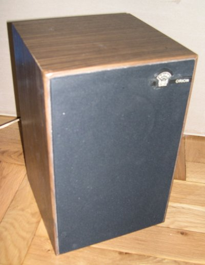 Orion HS-9 Mambo speaker